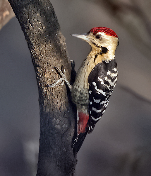 Fulvous-breasted Woodpecker Dendrocopos macei in Kolkata, West Bengal, India.